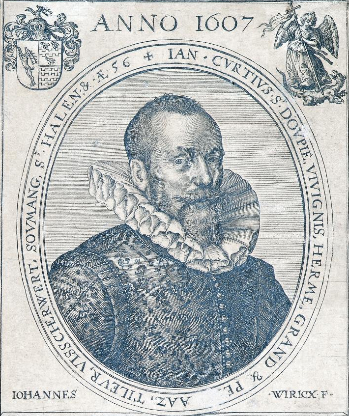 Portrait of Jean Curtius (1607)